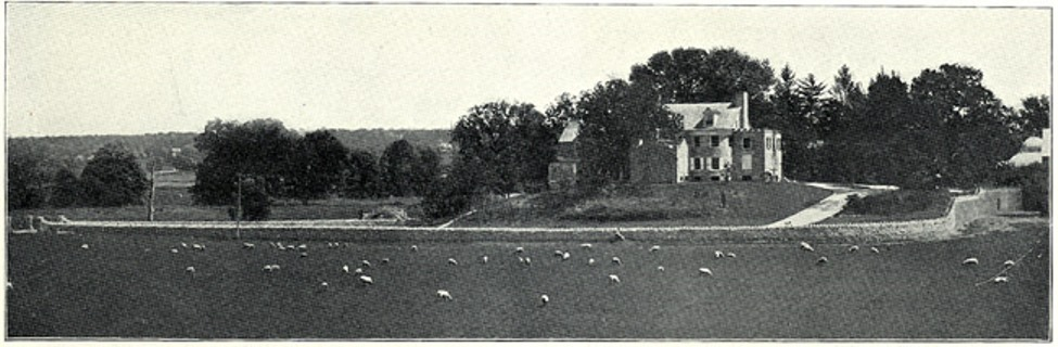 "Robert Nethermark Carson Residence." from Moses King, Philadelphia and Notable Philadelphians (New York: Blanchard Press, Isaac H. Blanchard Co., 1901), p. 85.